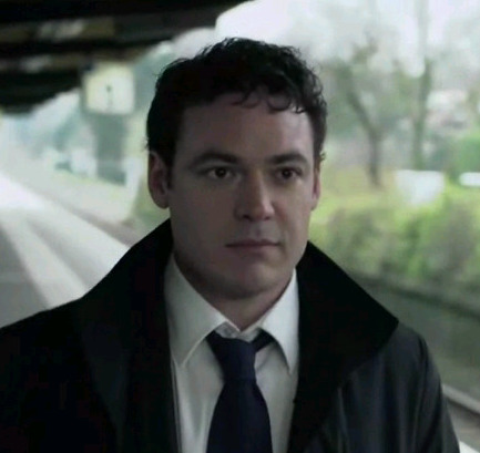 still from Promo - Overspel